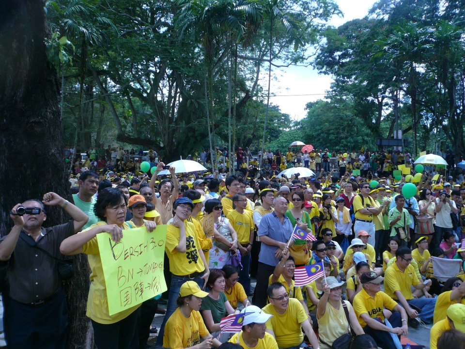 This photo shows the scenario of the rally in Ipoh, Perak, Malaysia